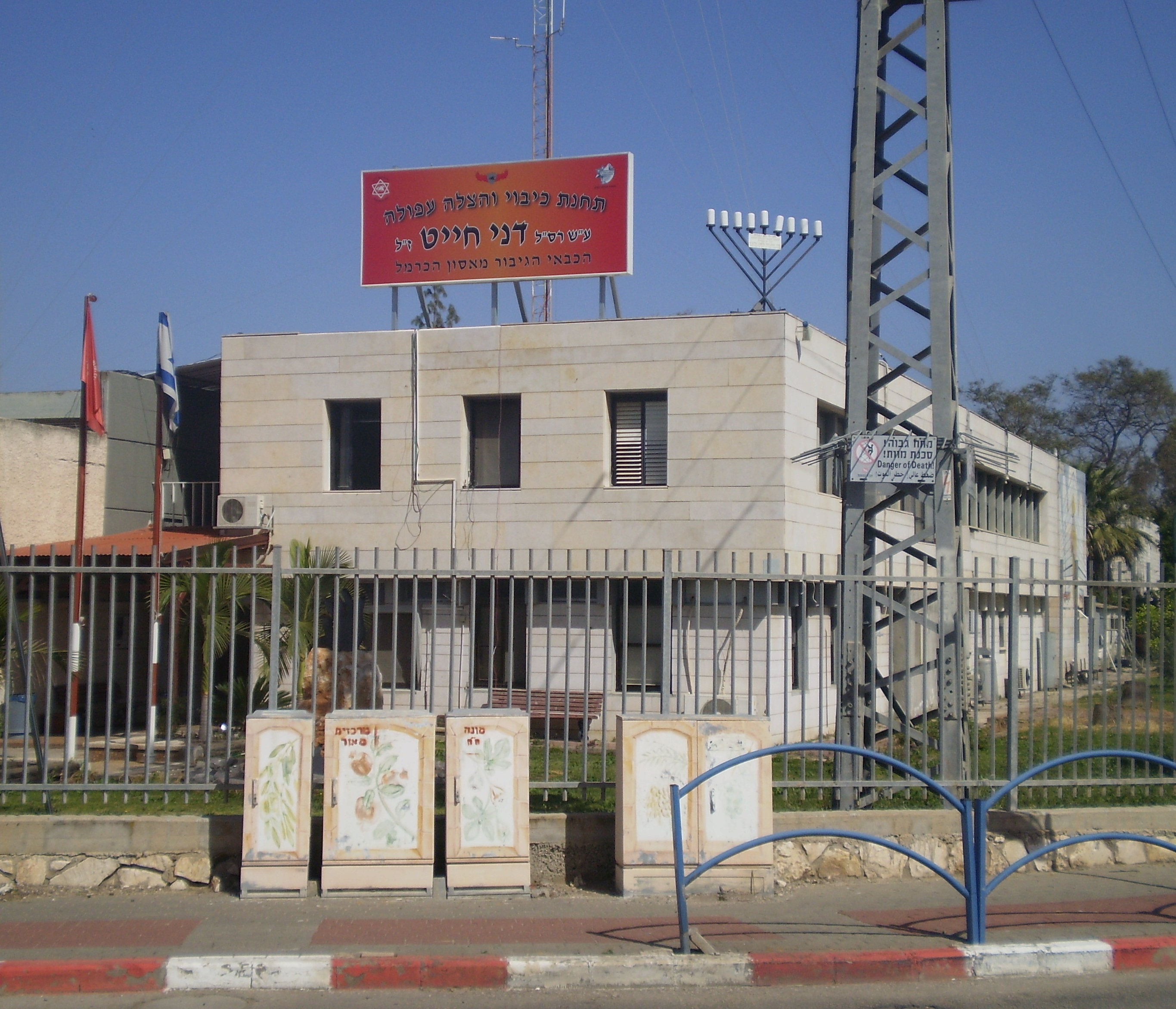 Afula fire station named after Danny Chayat